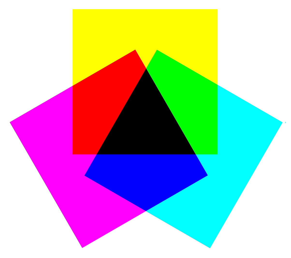 Cyan, magenta and yellow inks absorbing only two thirds of visible spectrum (i.e. perfect inks), when superimposed, create, by subtractive synthesis, blue (cyan and magenta), red (yellow and magenta), green (cyan and yellow), and black (yellow, magenta and cyan).